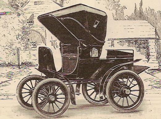 Columbia Mark III Electric Phaeton, ca. 1903